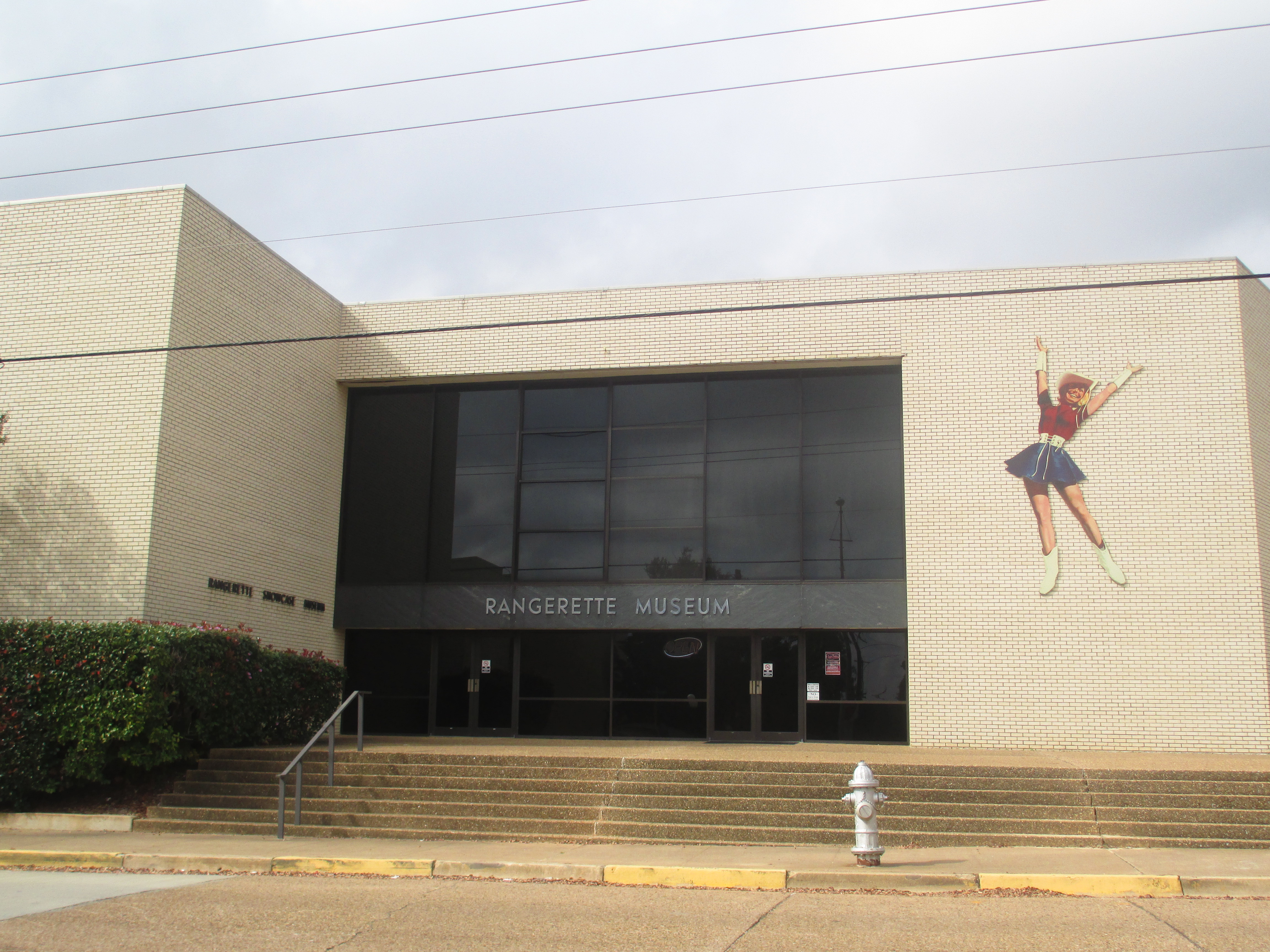 I took photo with Canon camera of Texas Rangerette Museum in Kilgore, TX.